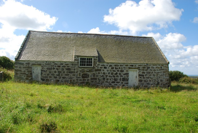 Capel Newydd Nanhoron Capel Newydd is a long narrow stone building with two doors on the northern side. Inside are box seats. The land for the chapel was bought in 1769 and the chapel was established in 1772. for old view